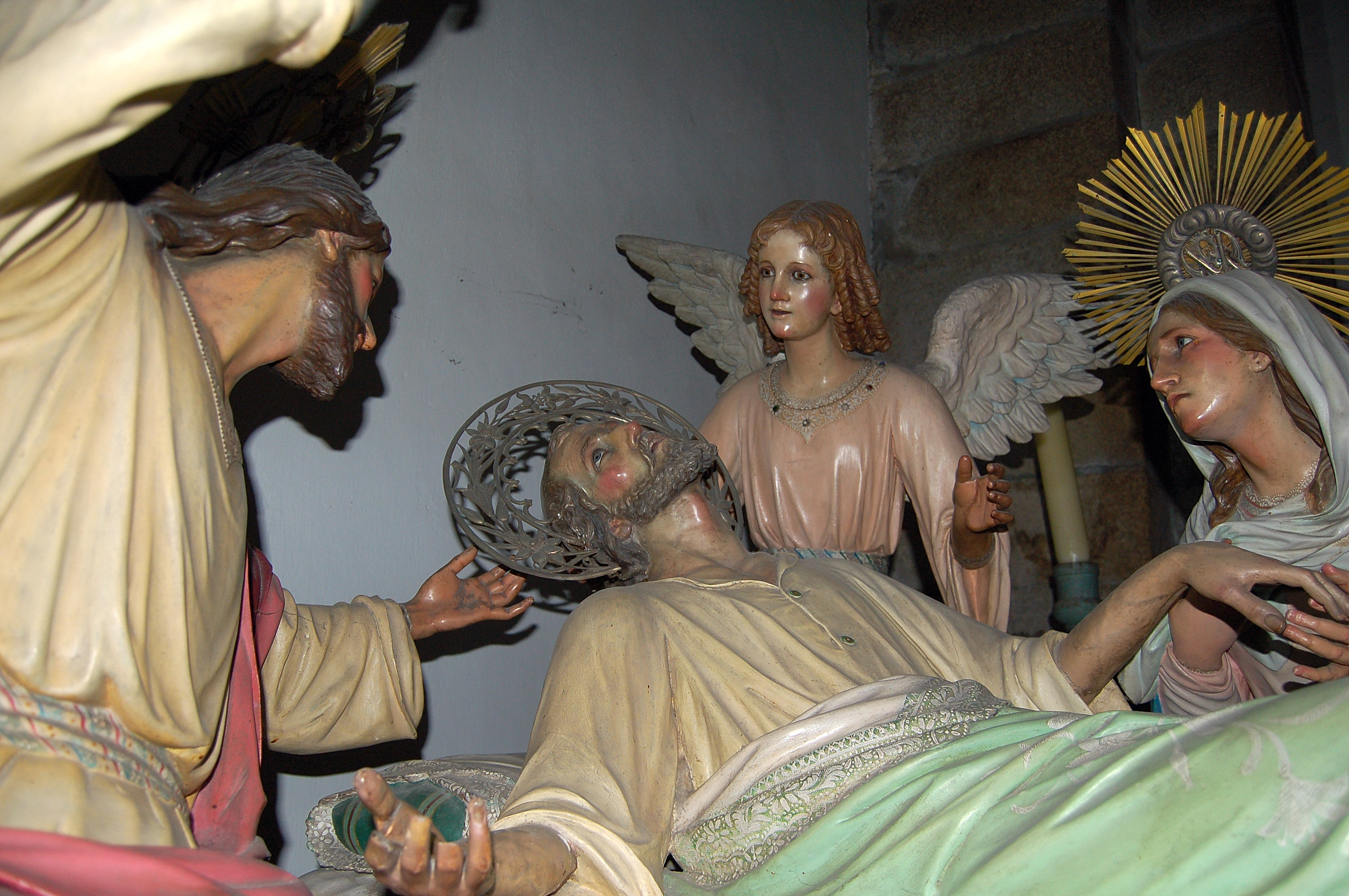 Morte de San Xosé de Picón na igrexa de San Francisco de Santiago de Compostela